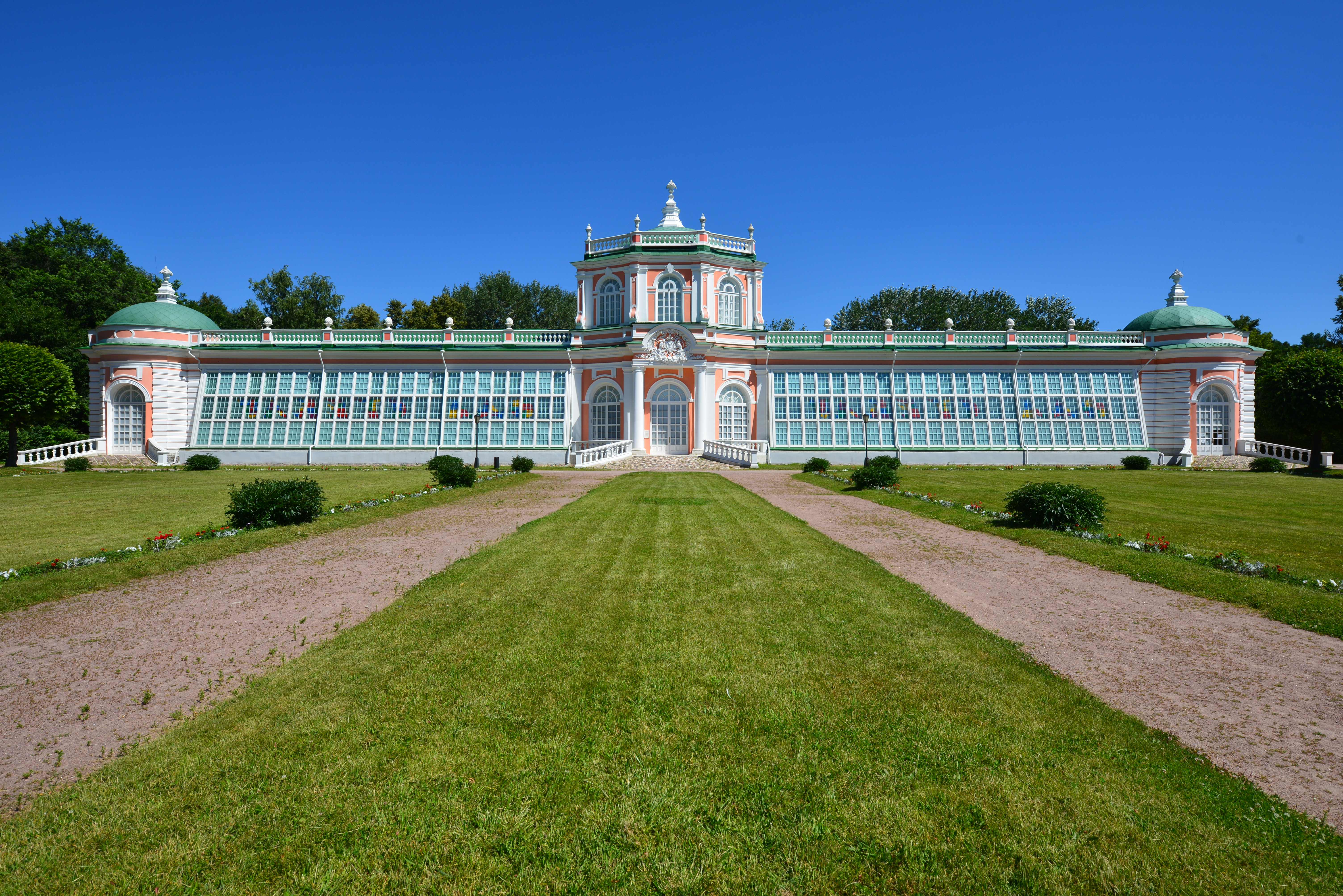 Kuskovo. The orangerie.2.